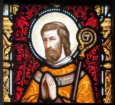 Detail of right part of fifth stained glass window in the east aisle (right from the nave if coming from the main entrance in the south), depicting Saint Aidan. Augustus Pugin (1812–1852) Alternative names Augustus Welby Northmore Pugin; A. W. N. PuginDescriptionBritish architectDate of birth/death 1 March 1812 14 September 1852 Location of birth/death Bloomsbury RamsgateWork location United Kingdom Authority control : Q313288 VIAF: 17247761 ISNI: 0000 0000 8096 1987 ULAN: 500008414 LCCN: n50027100 NLA: 35435757 WorldCat creator QS:P170,Q313288